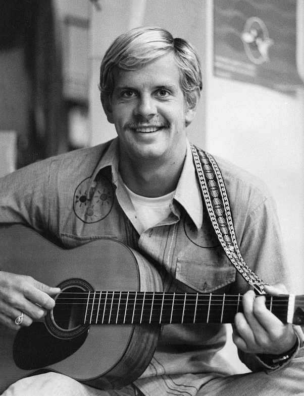 1976 Press Photo John Nabor